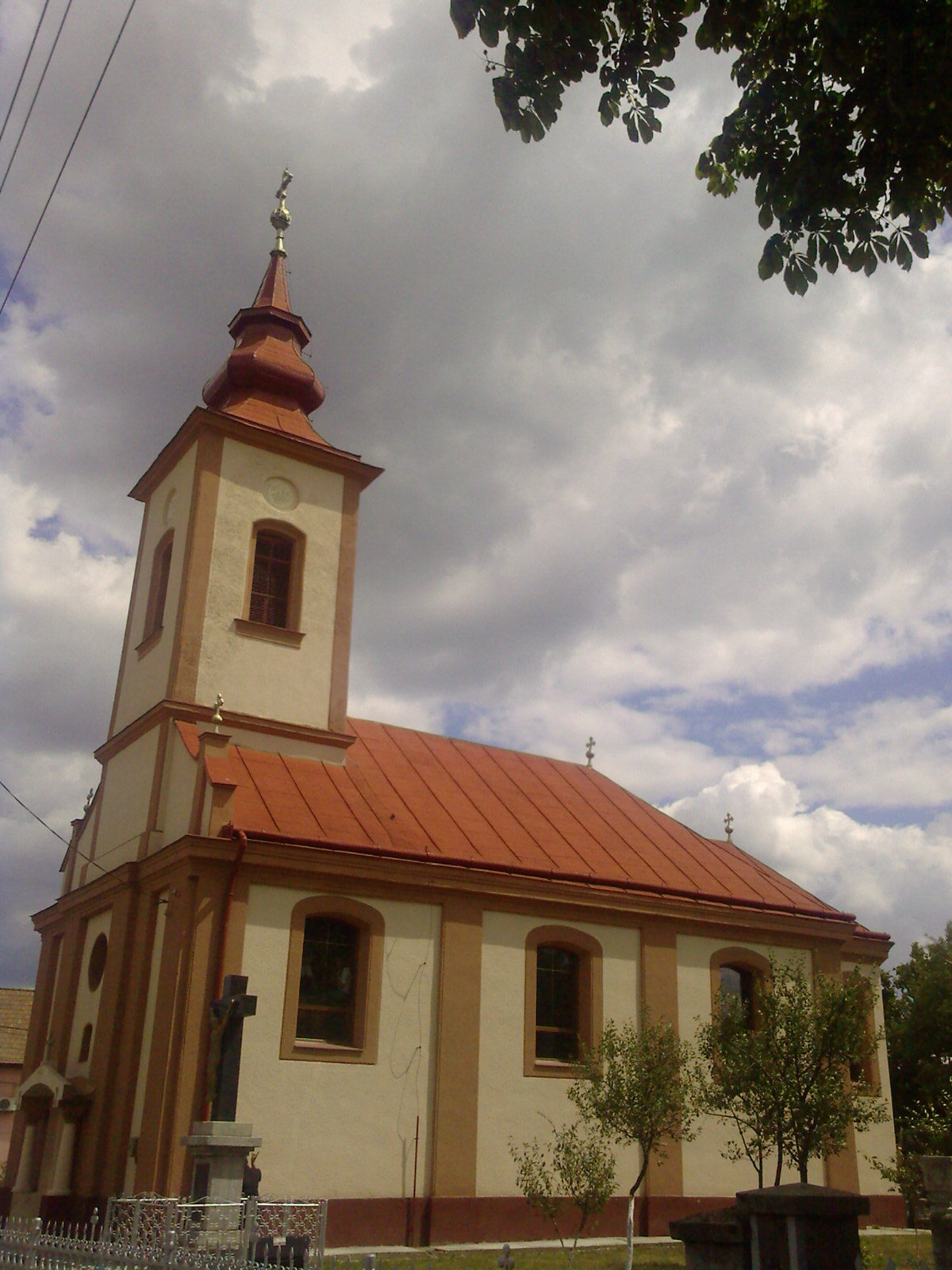 Orthodox Church, Vârşolţ, Sălaj County, Romania